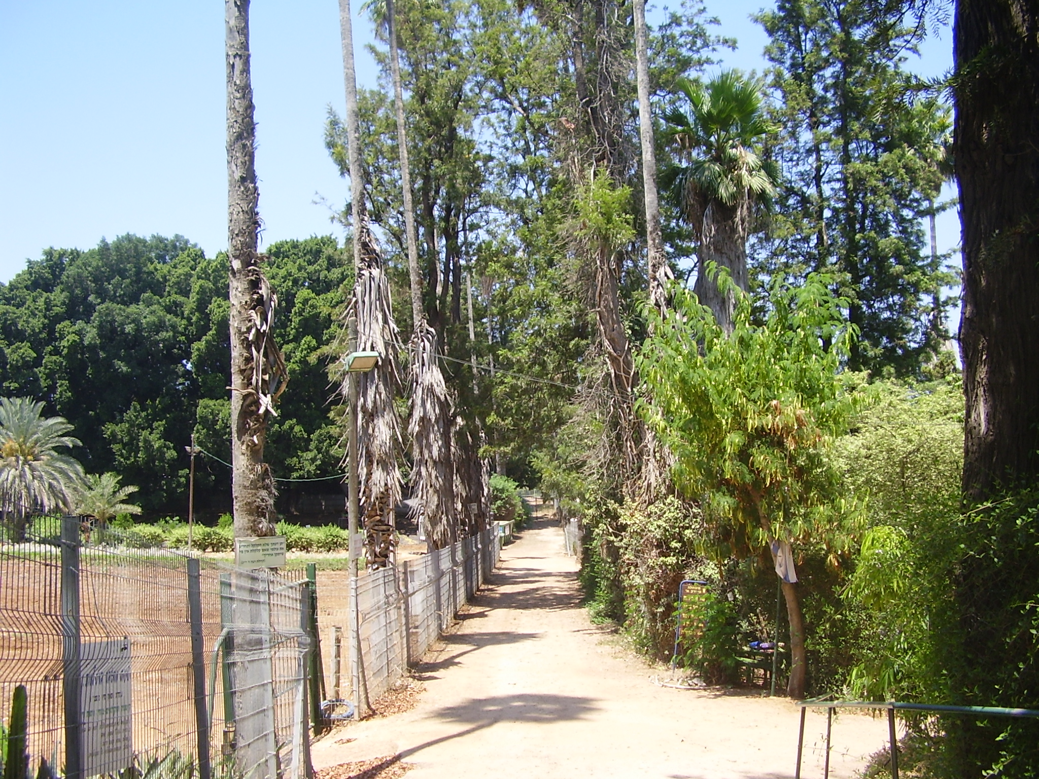 agriculture school in petah tikva, israel החווה לחינוך חקלאי בפתח תקווה